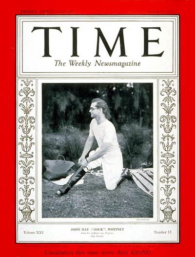 Time magazine, Volume 21 Issue 13. Front cover is a photograph of John Hay Whitney.